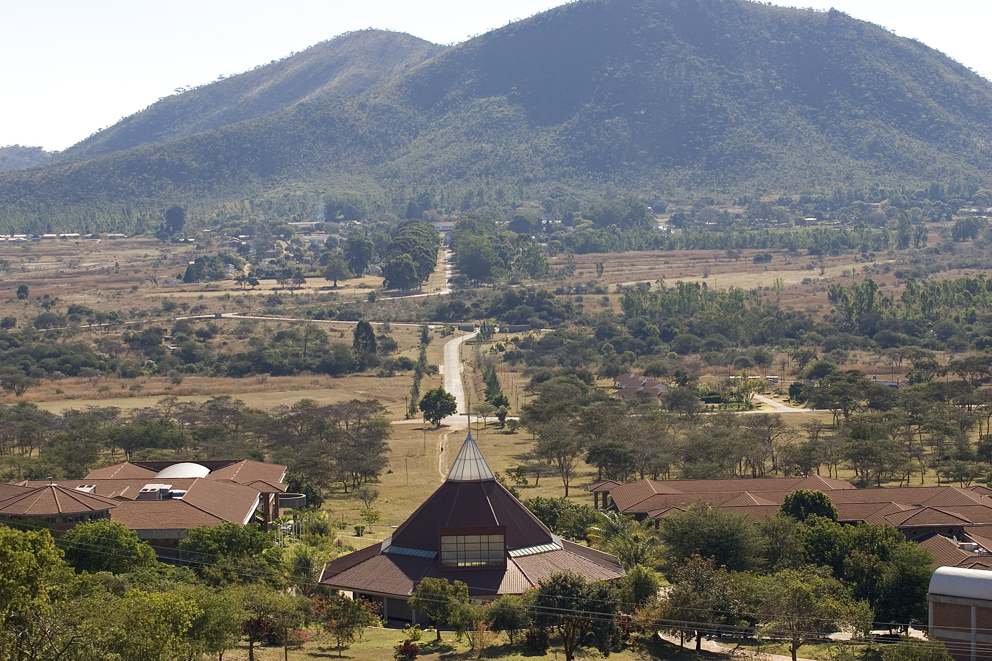 View of Mount Chiremba from AU Campus